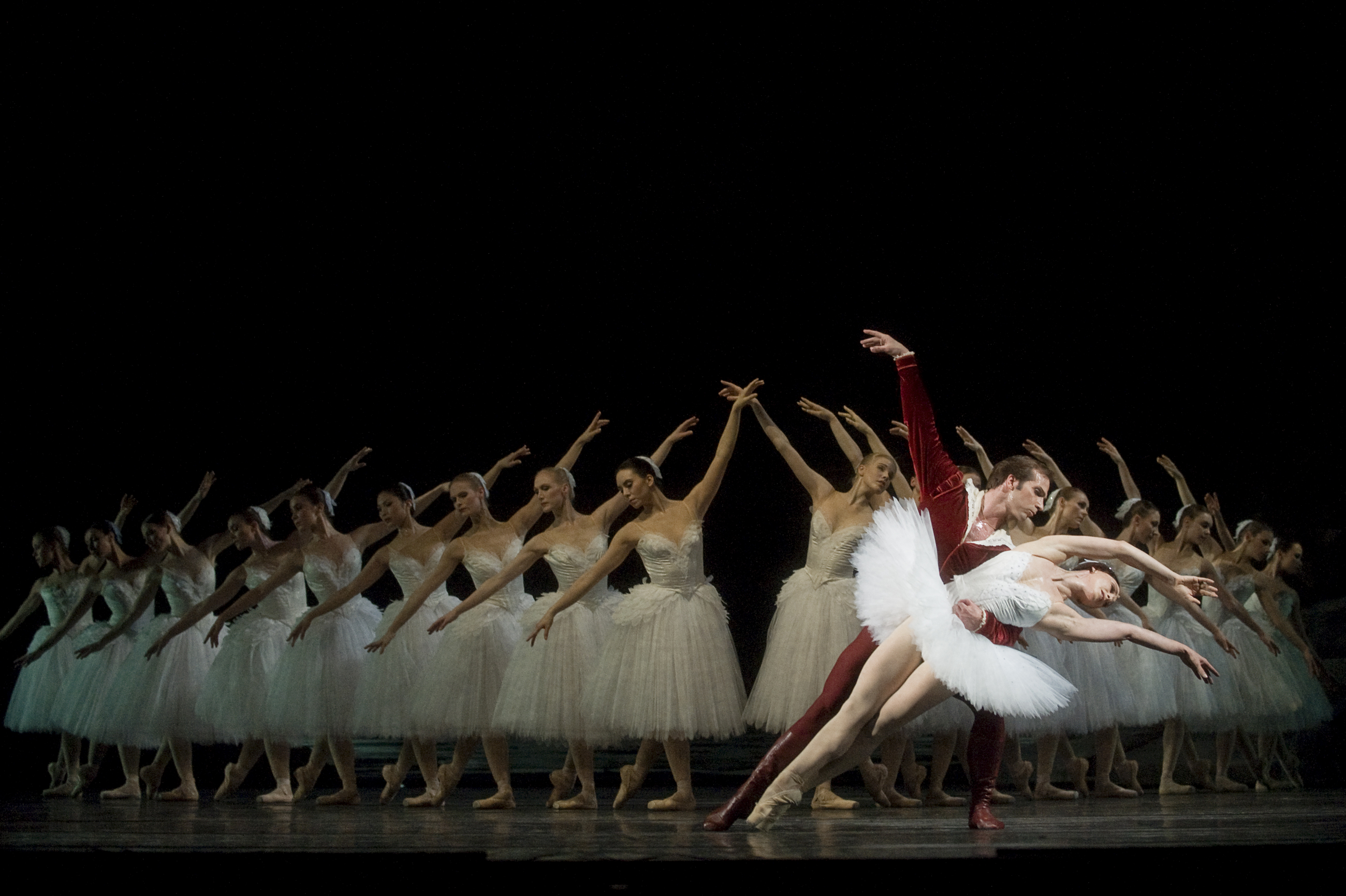 Swan Lake prodution 2008 at the Royal Swedish Opera